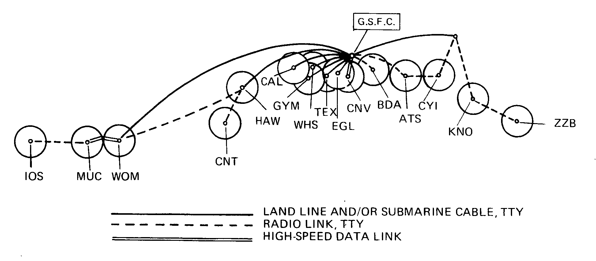 Diagram of the ground communications network in use during Project Mercury